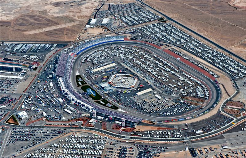 A Maverick helicopter soars high above the Las Vegas Motor Speedway during NASCAR Weekend 2011. Photo Credits: Tom Donoghue